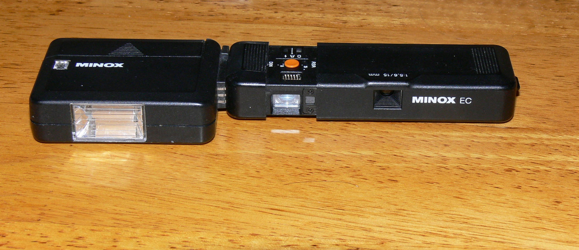 Minox EC w electronic flash